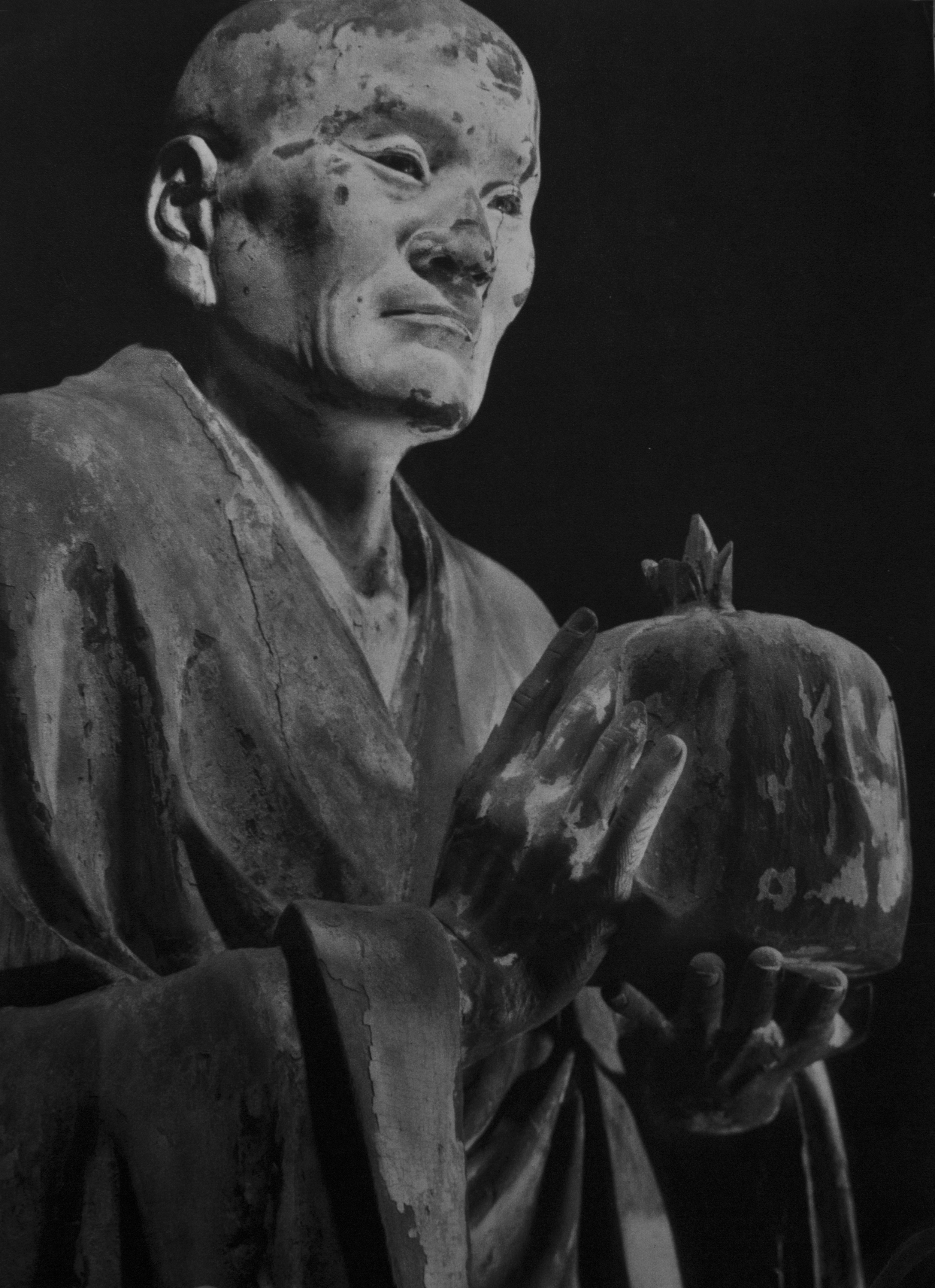 Kofukuji, Nara, Japan